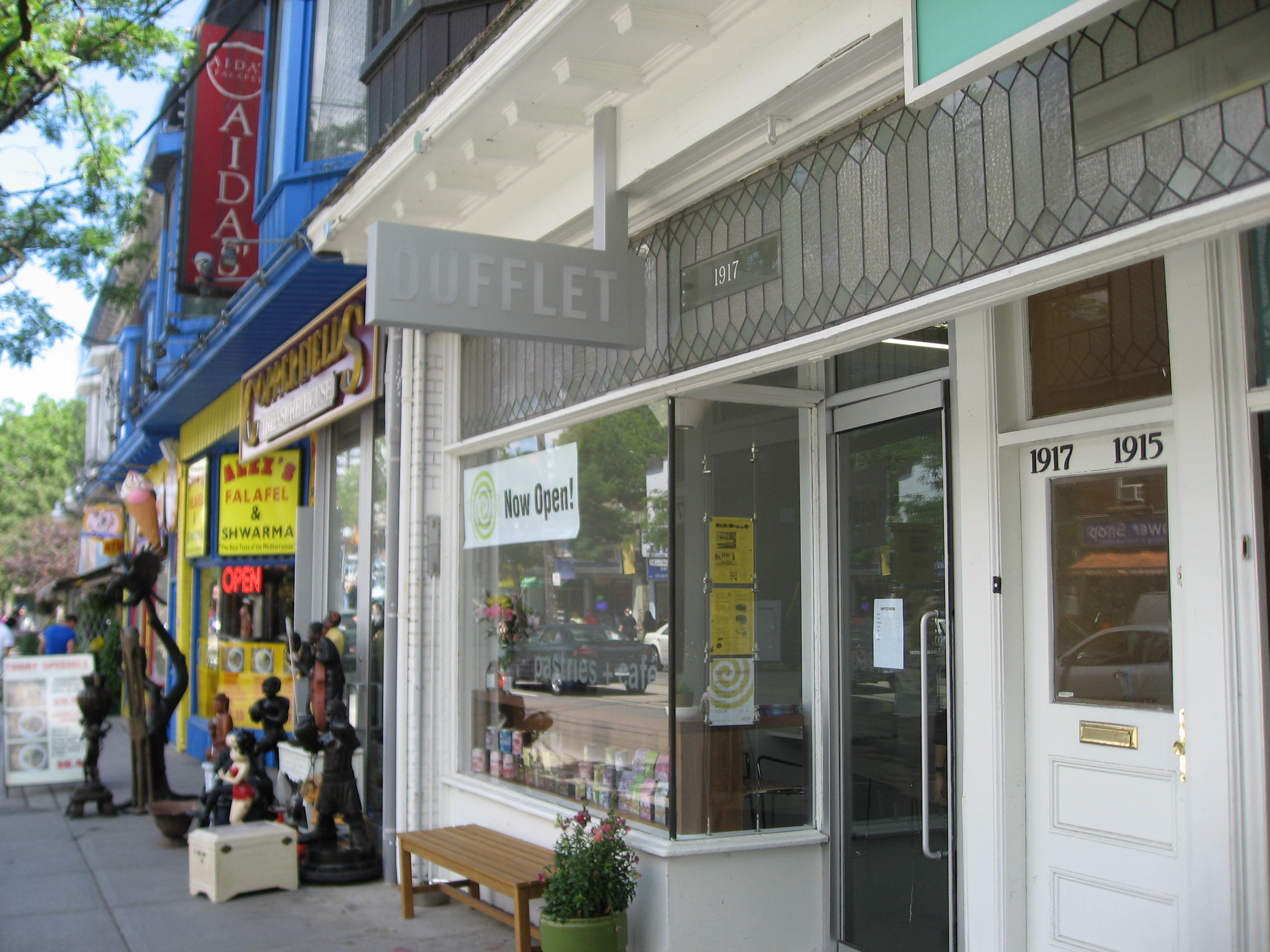 just opened this location (1917 Queen St. E.). Nice seating area in the back as well. Queen Street East, Toronto, Canada.Dufflet desserts now in the beach